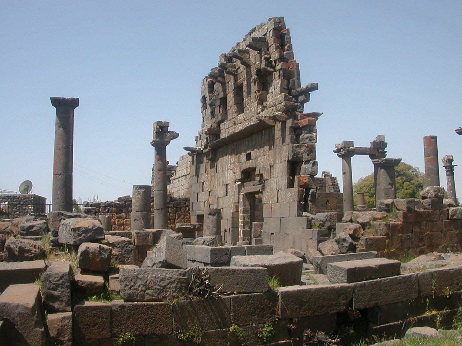 The Serai, ruins of a late 4th century church in Qanawat, Syria